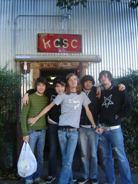 The Higher stops by in Chico, California.